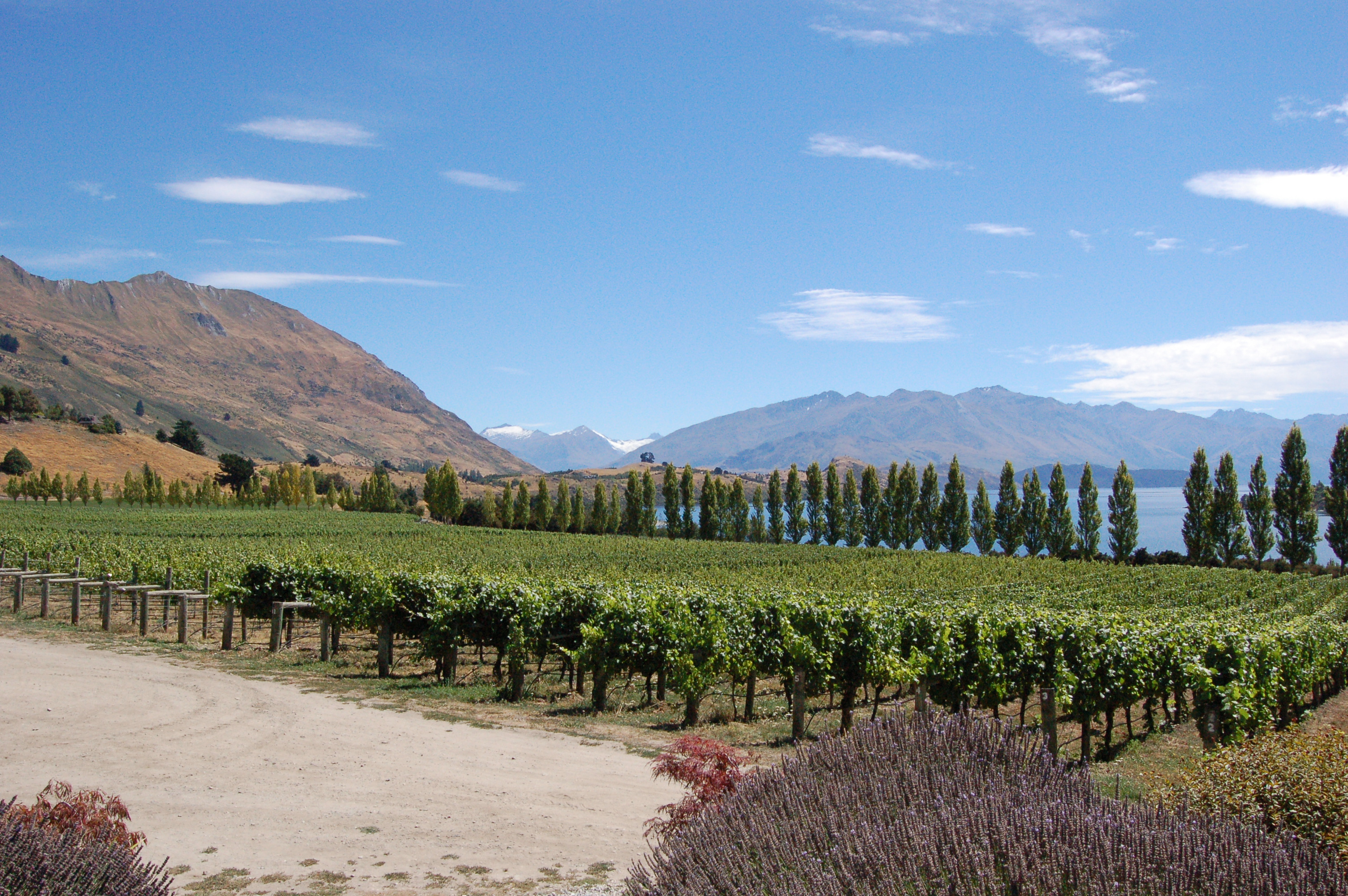 Rippon Vineyard near Lake Wanaka NZ, Wanaka.